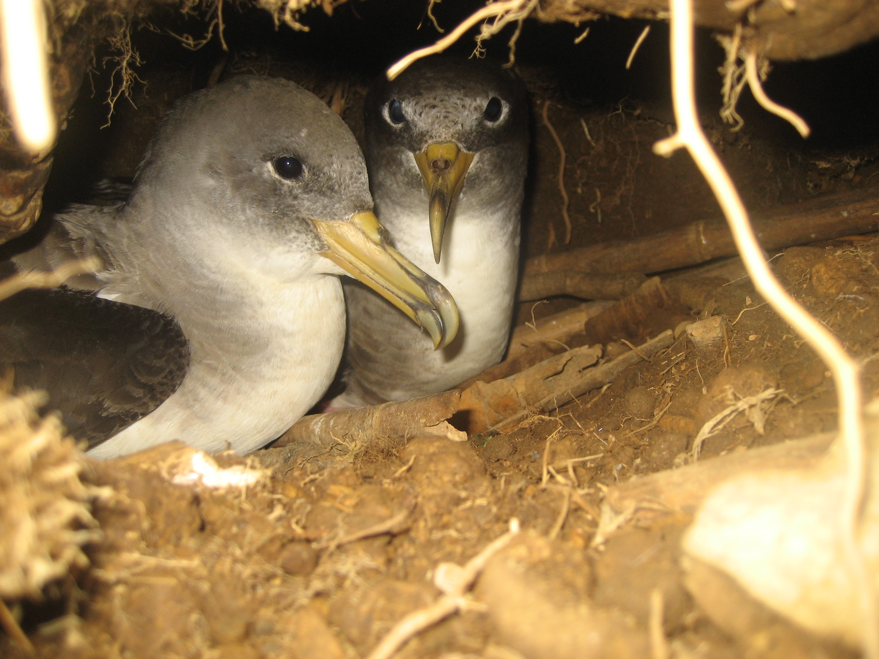 Cory's shearwater